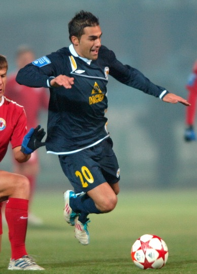 João Pedro Santos Gonçalves players of FC Metalurh Donetsk